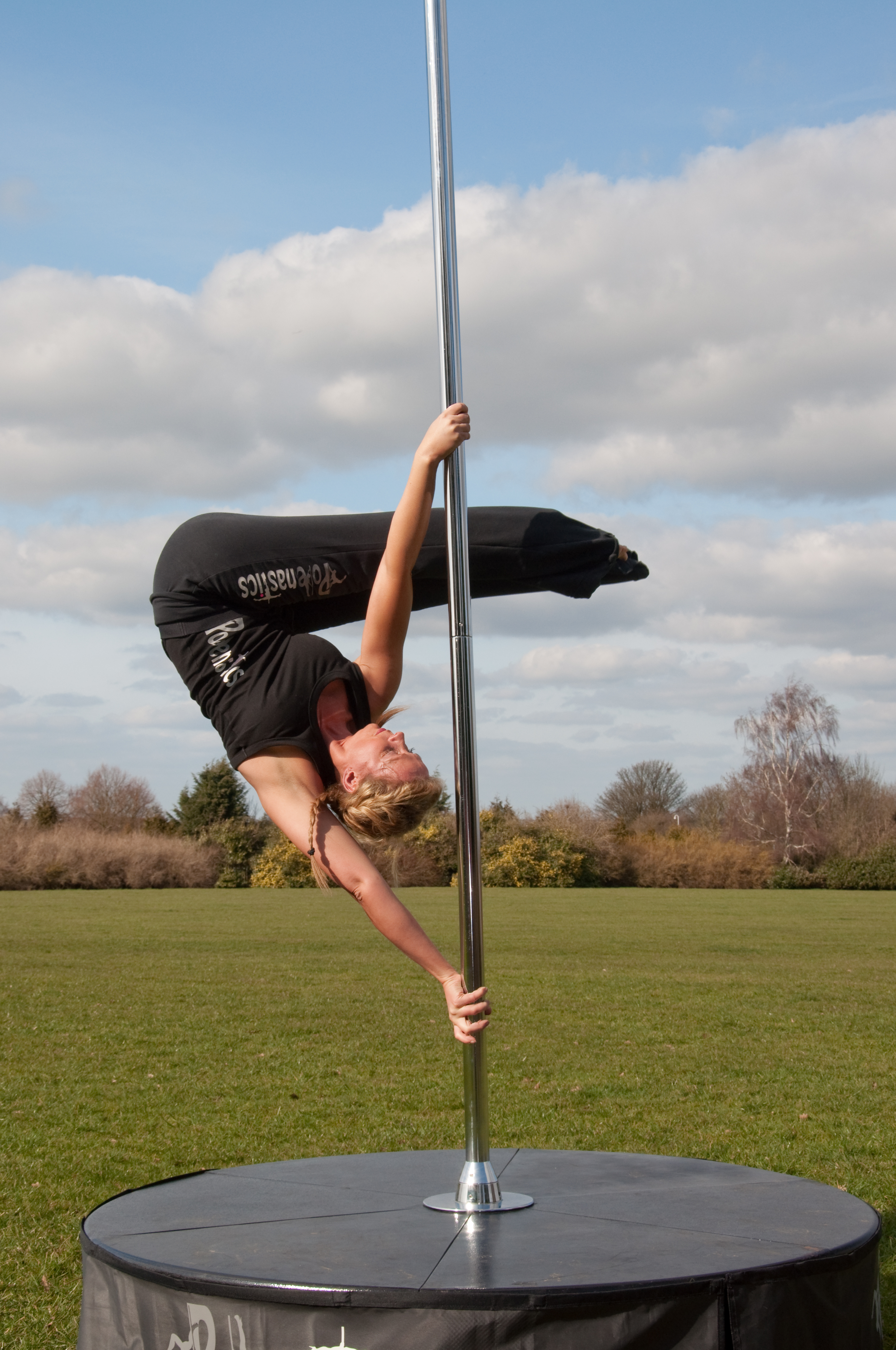 Pole dancing and fitness polenastics Pippa Caesar twisty grip jack knife on an x-pole x-stage